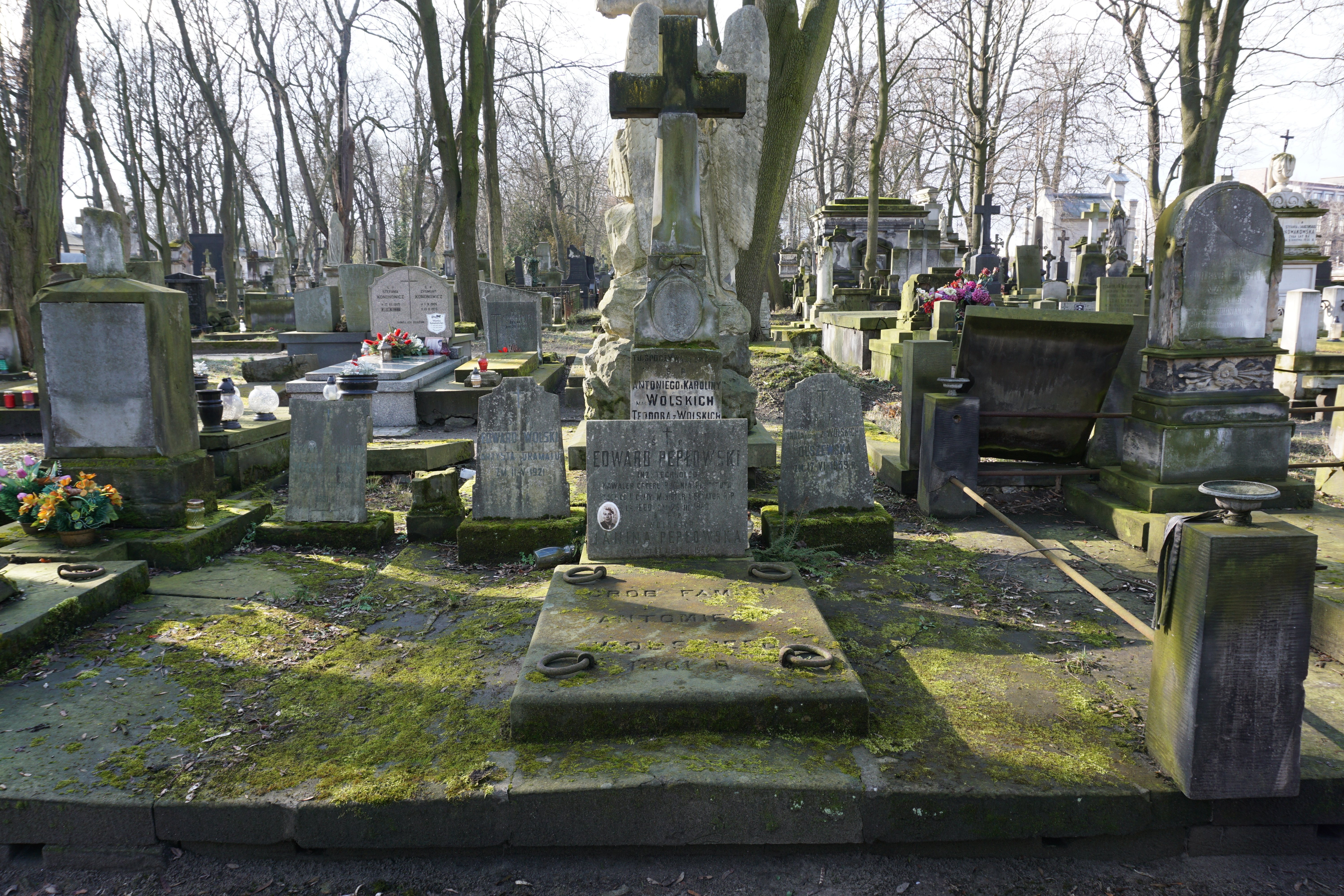 The grave of Edward Pepłowski at the Powązki Cemetery (section 179, row 3, grave 20, 21)